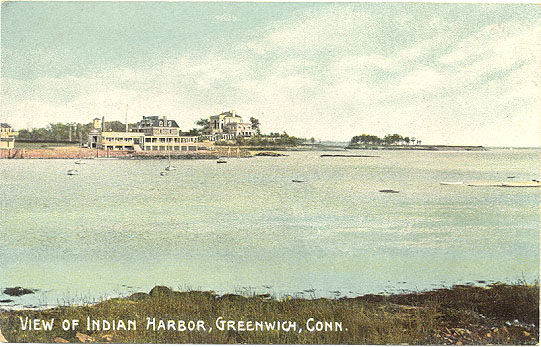 Postcard: Indian Harbor, Greenwich, Connecticut, circa 1907 to 1915 "Card is Postally Unused. Circa: 1907-1915. Published by The American News Company. Printed in Germany."